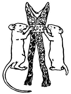 Illustration by Otto Ubbelohde to the fairy tale The Story of Schlauraffen Land